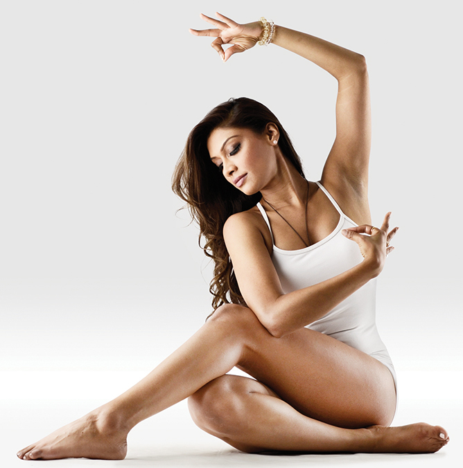 Mr-yoga-half-lord-of-fishes-pose